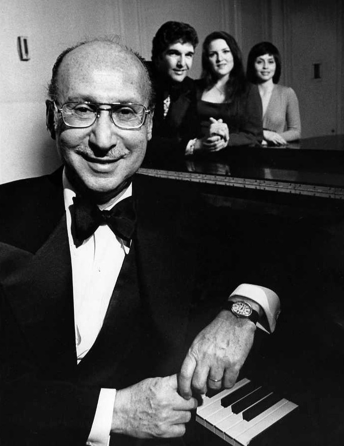 Photo of Sammy Cahn and performers from his Broadway revue Words and Music. In back from left-singers Jon Pack, Shirley Lemmon, Kelly Garrett.